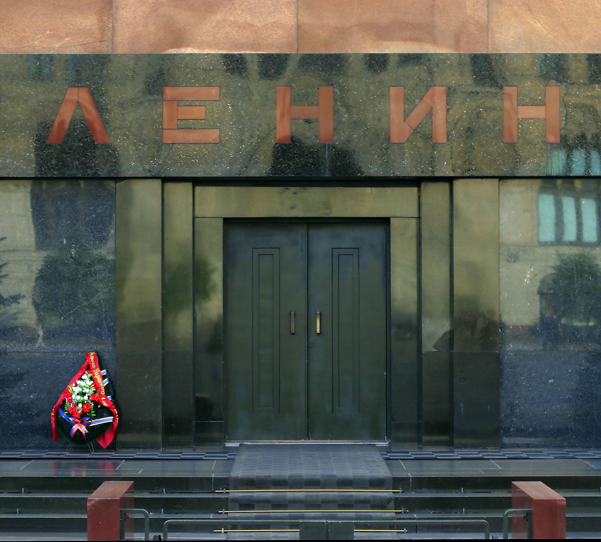 An entrance to Lenin's Mausoleum in Moscow